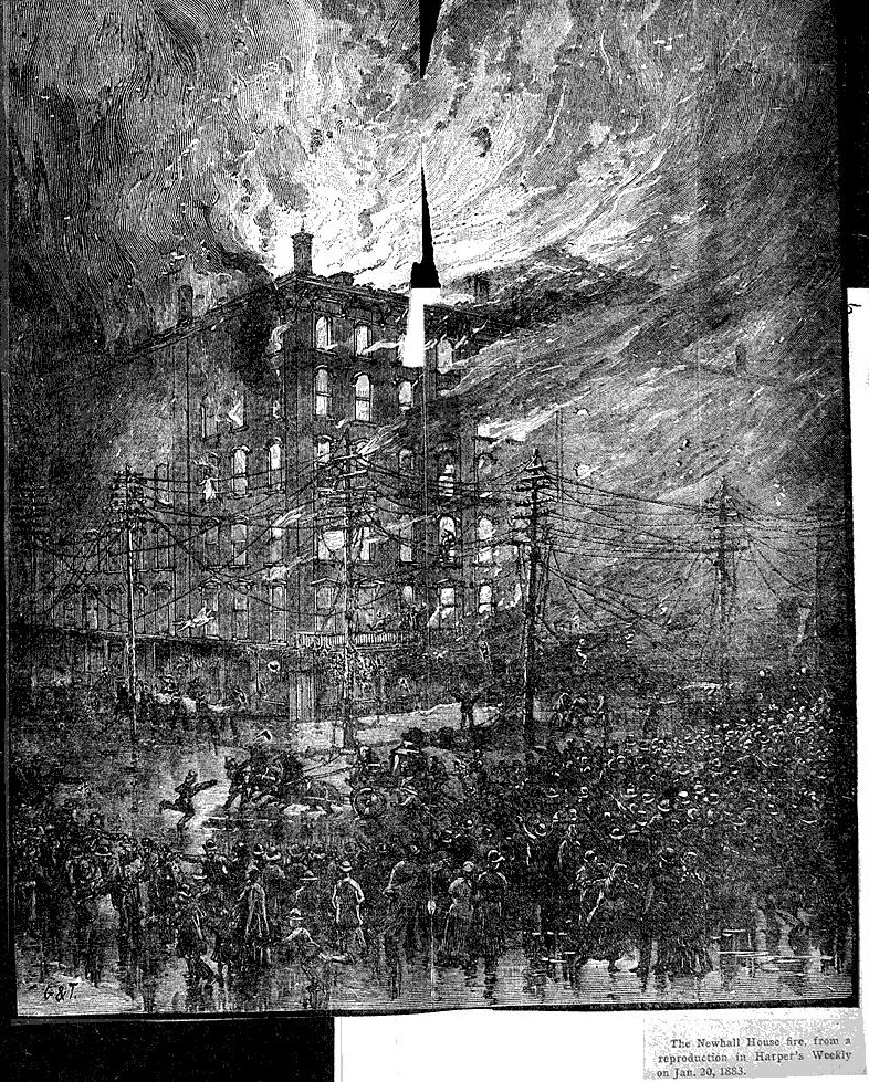 Brand des Newhall House in Milwaukee am 10. Januar 1883